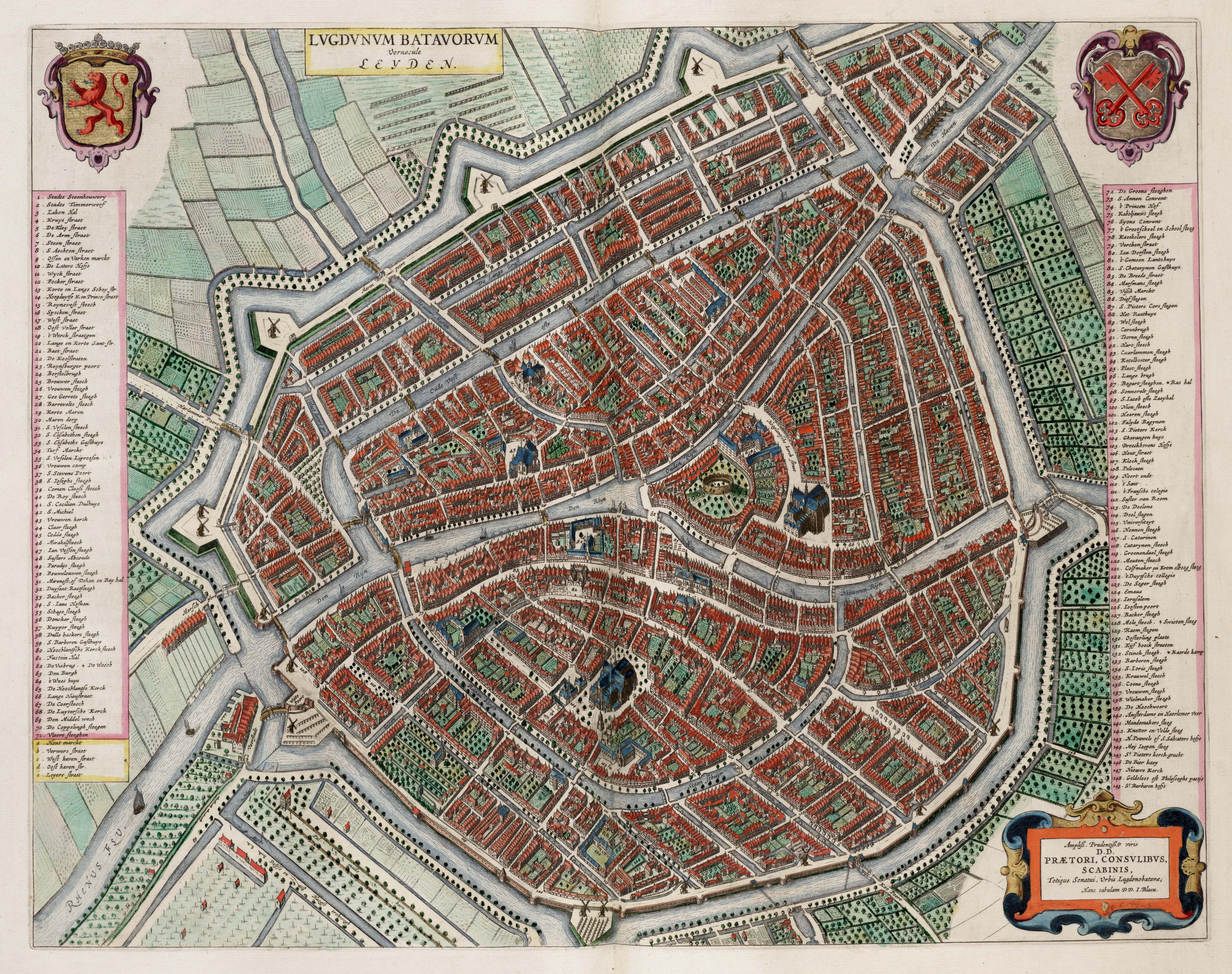 Map of Leiden in the Netherlands by Joan Blaeu, 1649